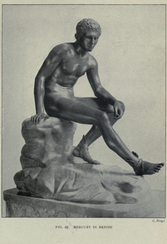 Mercury in repose, excavated at the Villa of the Papyri.